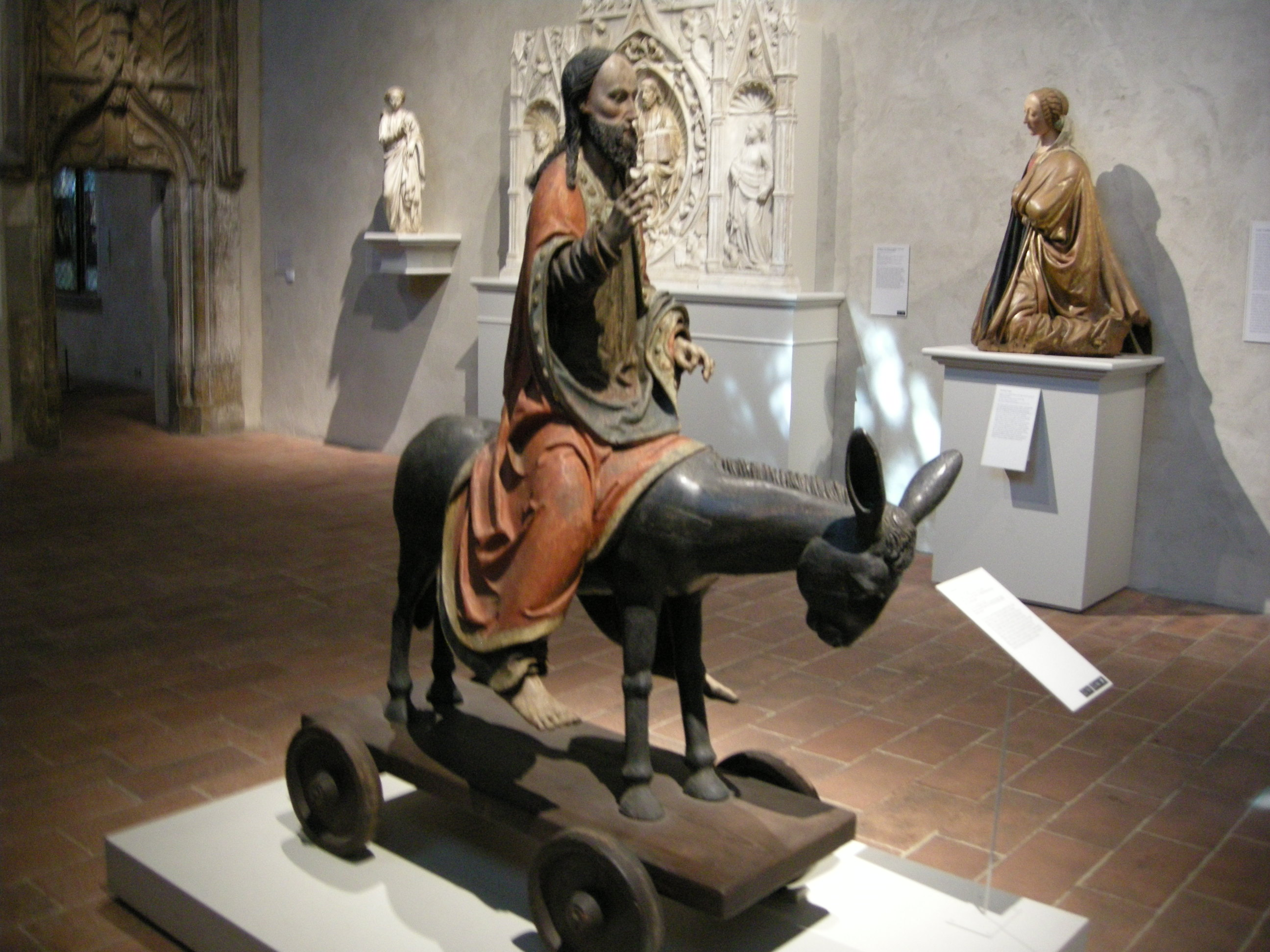 Palmesel, lower franconia, 15th century